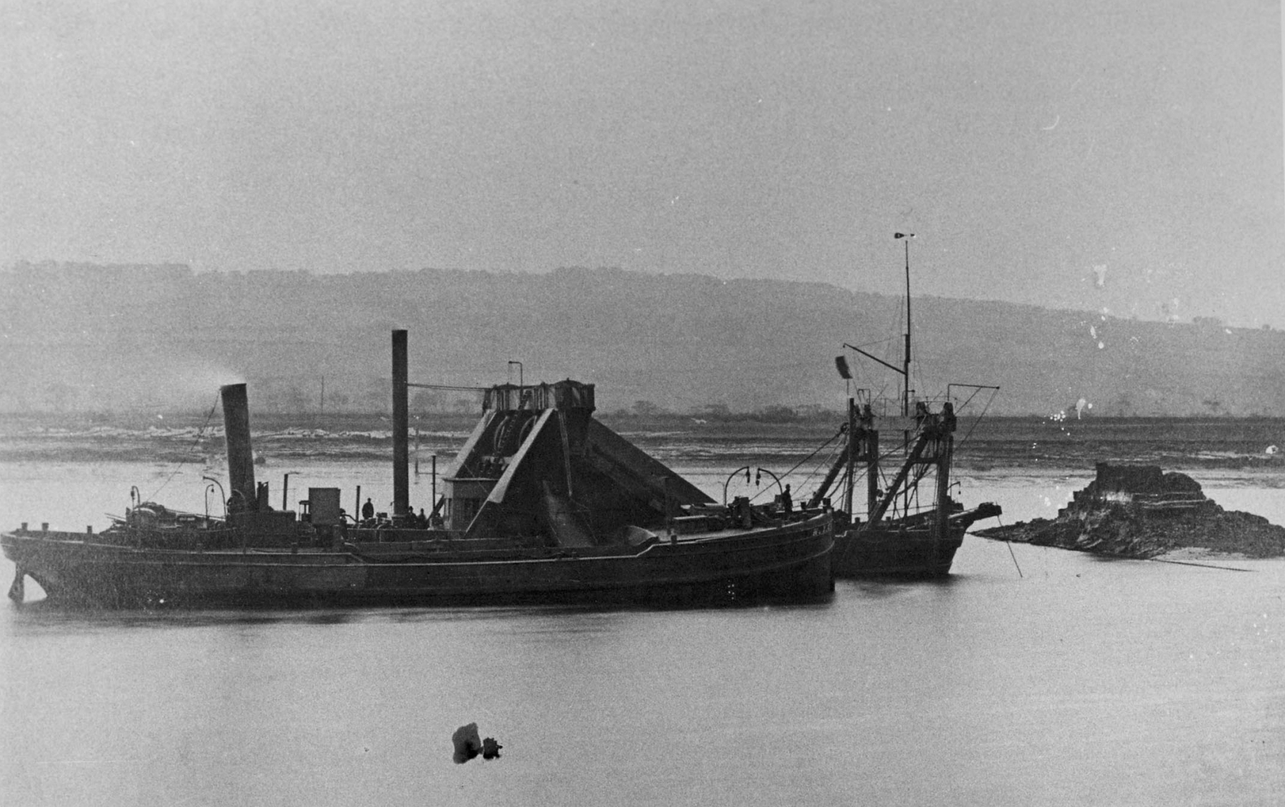 The dredging of Kings Meadows in the River Tyne in the 19th century